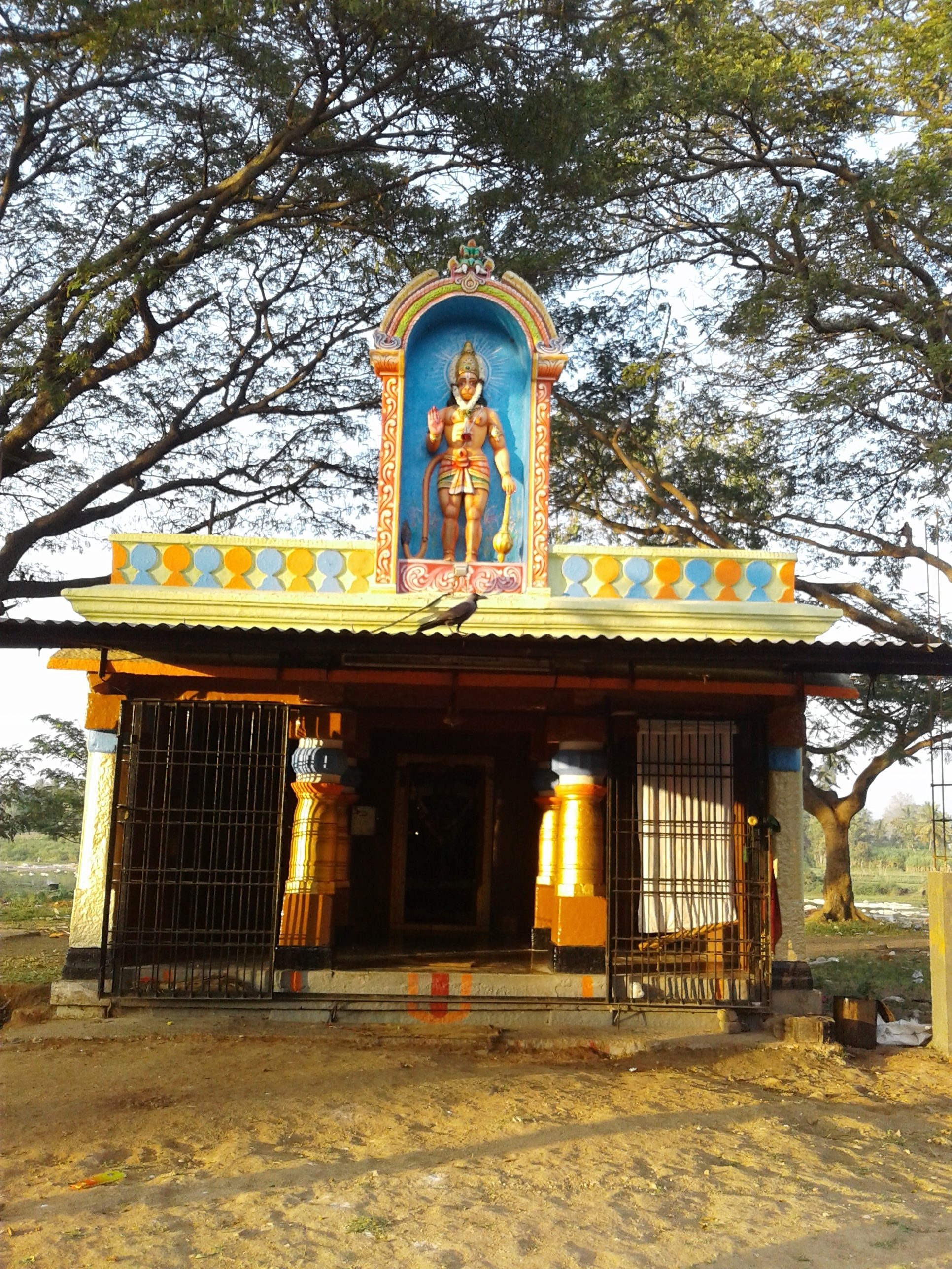 Srirangapatna, Mandya district, Karnataka state, India.